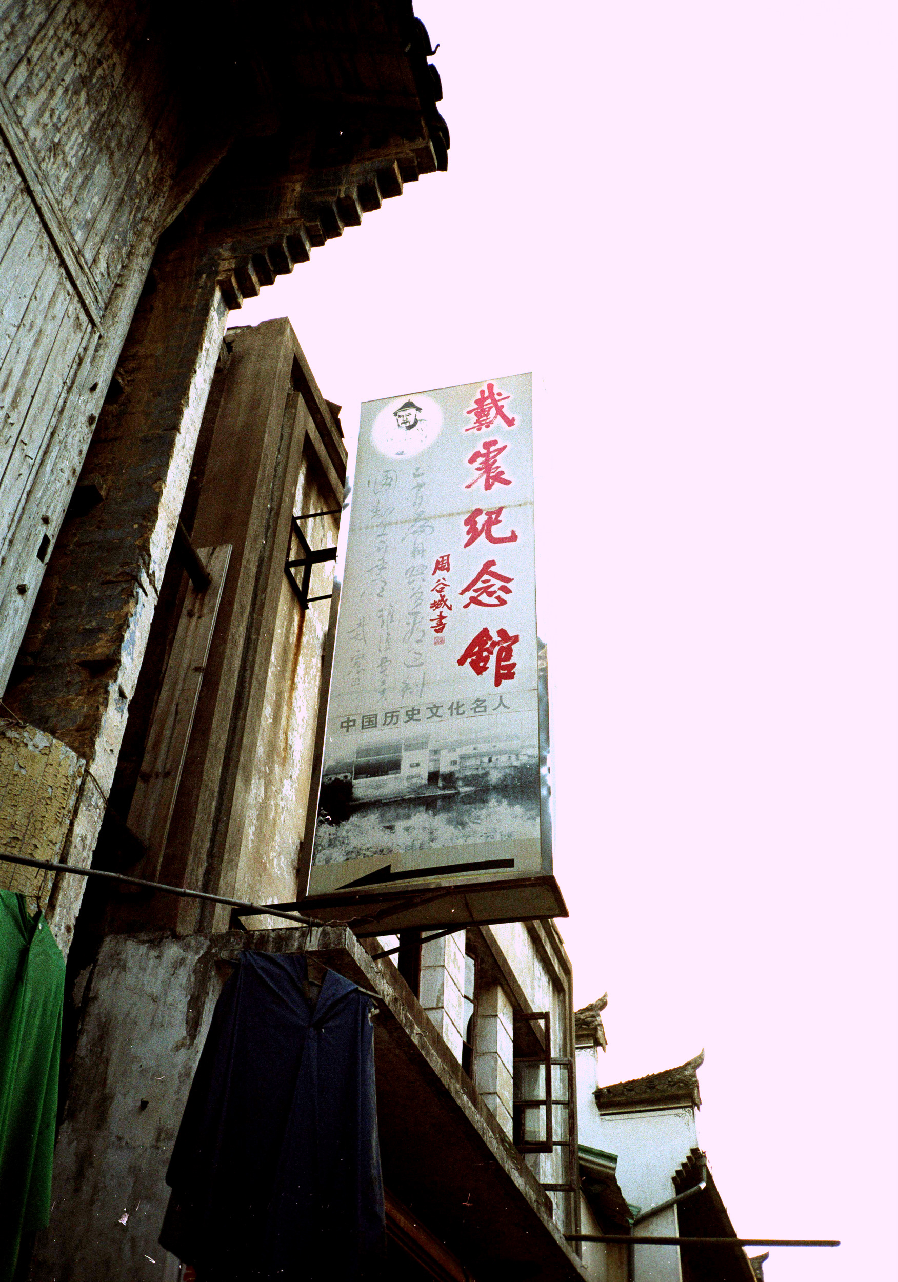 Memorial House of philosopher Dai Zhen安徽屯溪老街戴震纪念馆